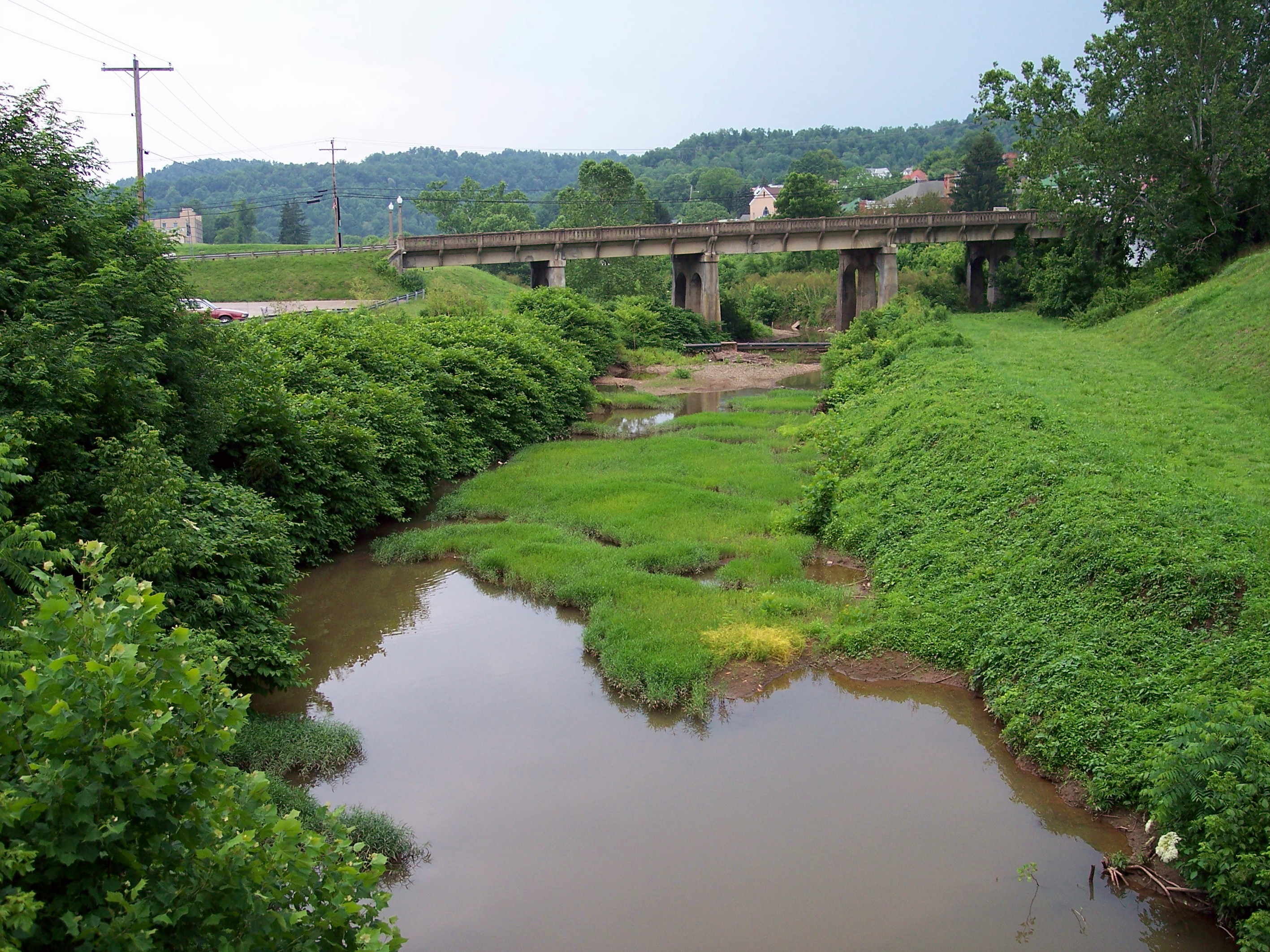 Spring Creek in Spencer, West Virginia in July 2006